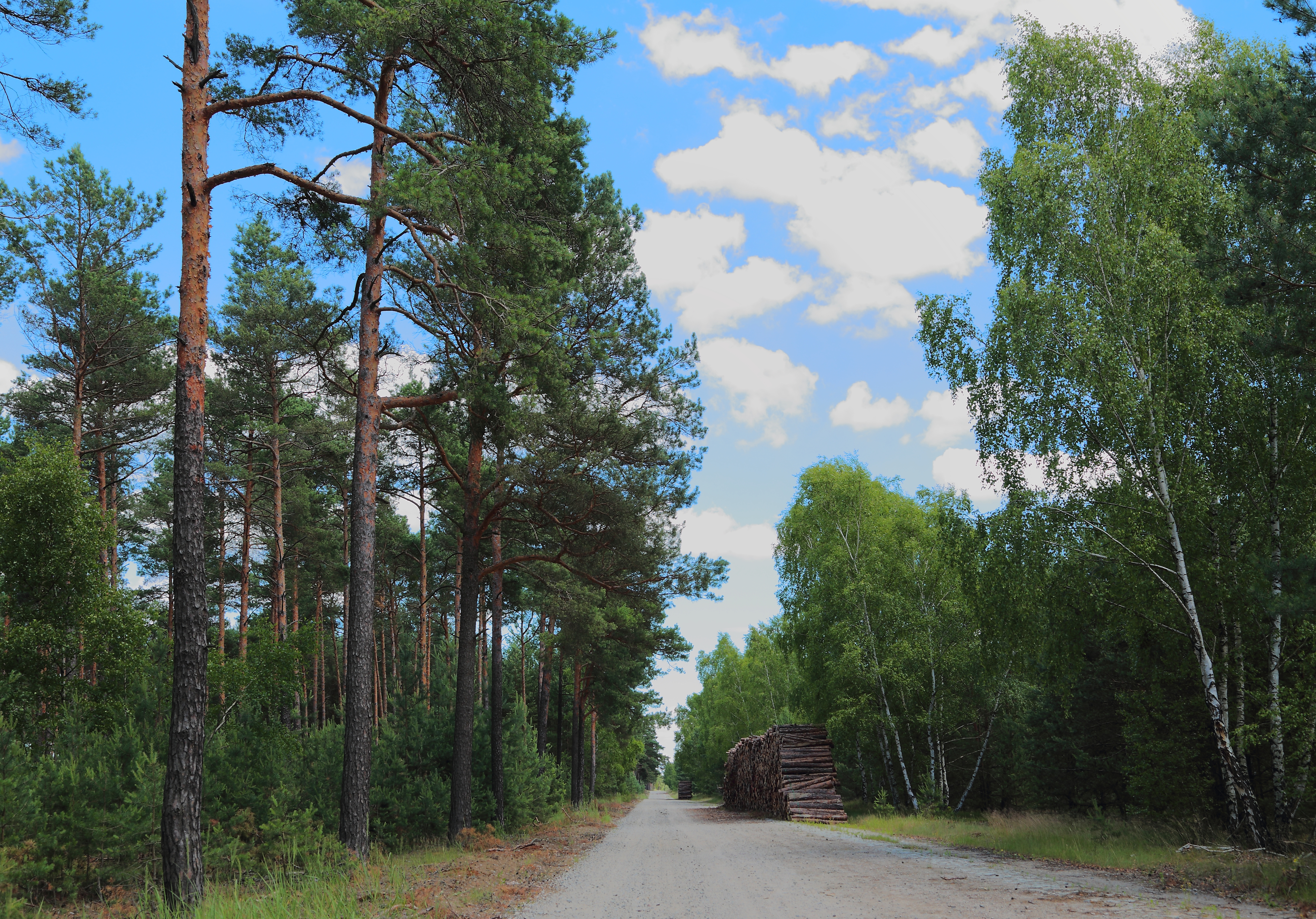 Forest road in the Lieberose Heath (Lieberoser Heide) within the territory of Turnow-Preilack, Landkreis Spree-Neiße, Brandenburg, Germany.